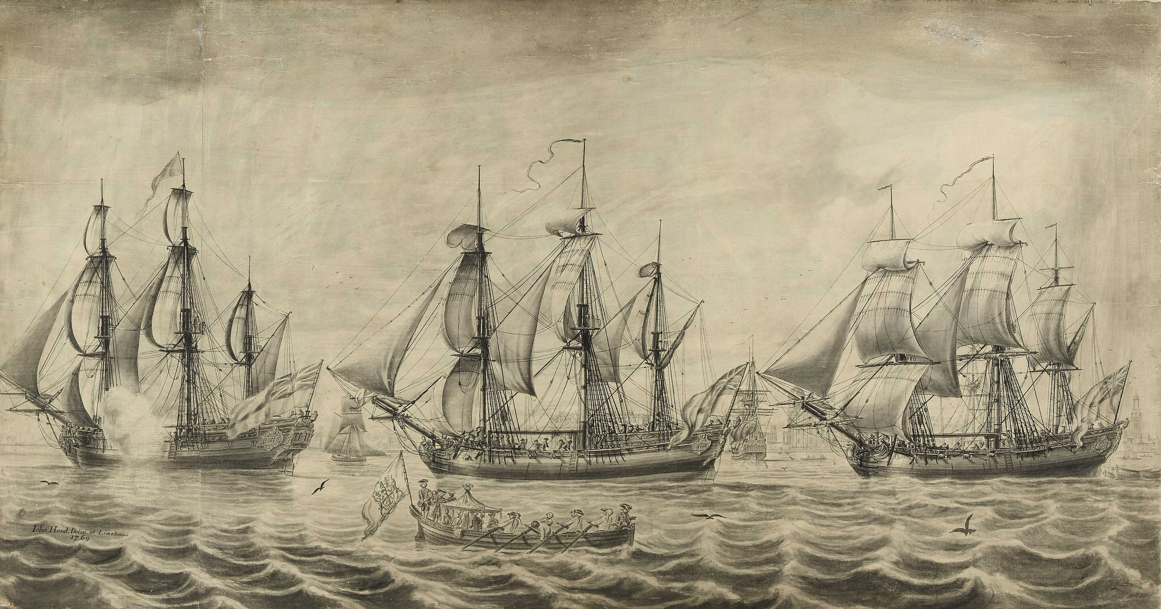 Three ships of the Hudson's Bay Company off Greenwich. 1769.